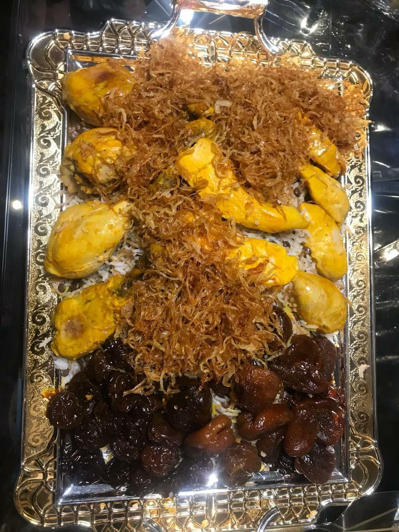 Qabli is a traditional food in Tabriz, Iranian Azerbaijan.